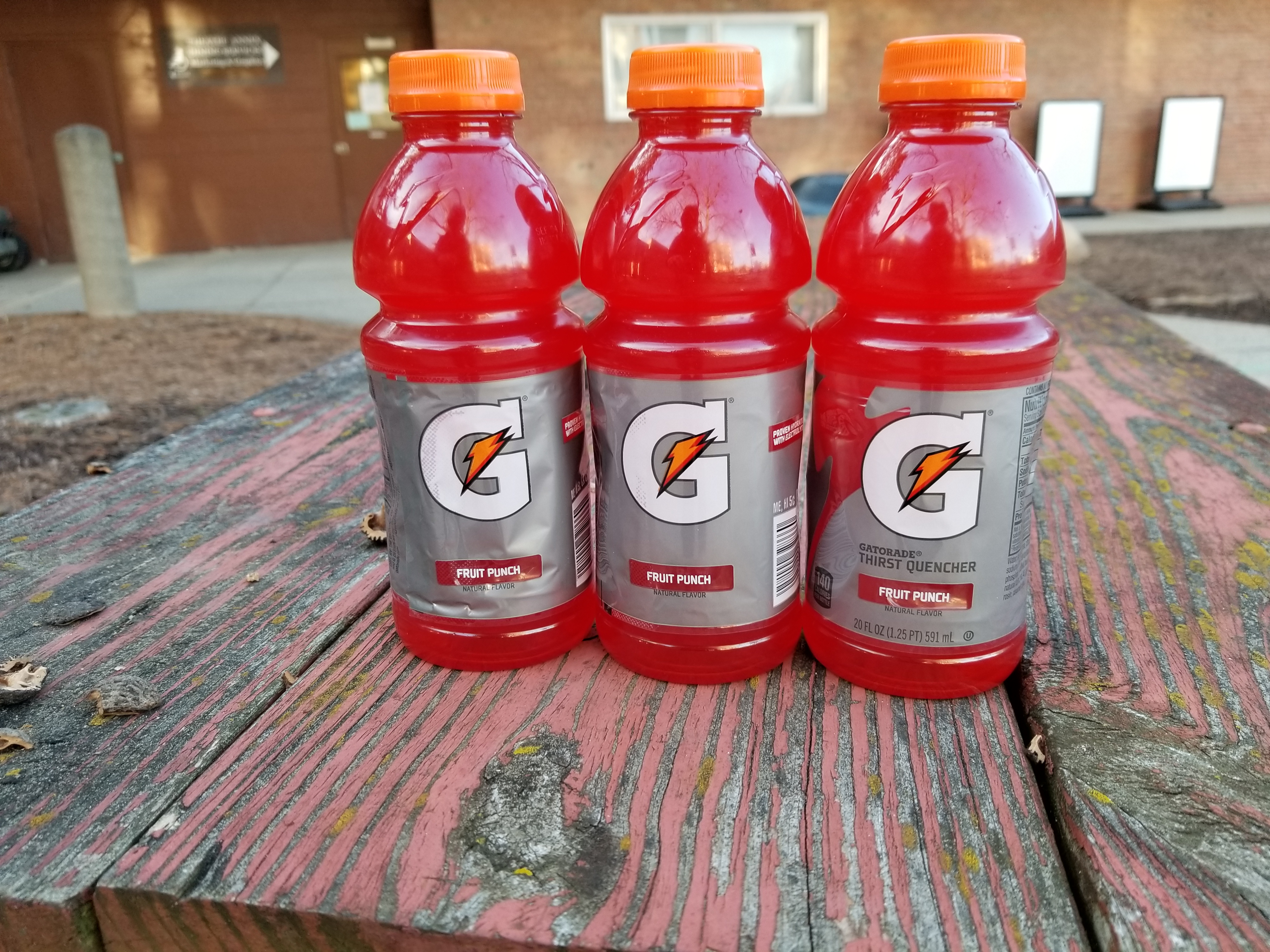 Gatorade